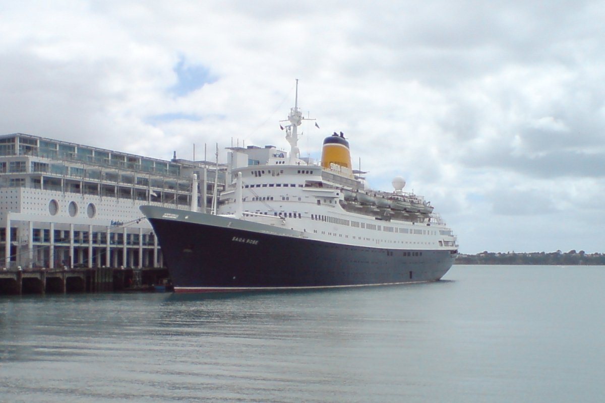 The Saga Rose cruise ship tied up at the Overseas Terminal at Princes Wharf, Auckland, New Zealand. IMO Number: 6416043 MMSI Number: 308264000 Length: 190.0m Callsign: C6ZU Beam: 25.0m